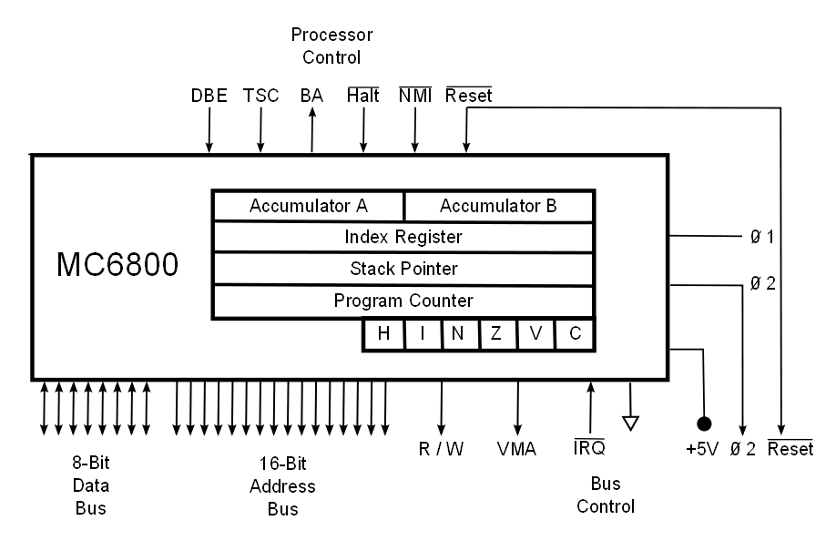 A Motorola MC6800 microprocessor registers and I/O lines. Based on a diagram in MC6800 Systems Reference and Data Sheets by Motorola Semiconductor Products Inc., May 1975.